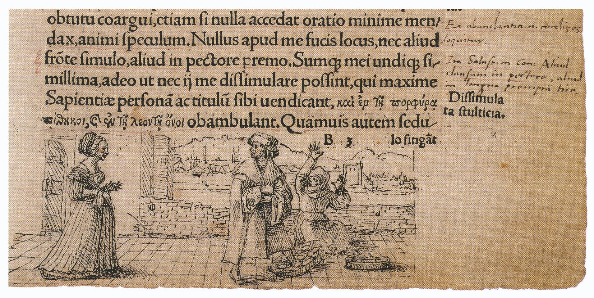 A Scholar Treads on a Market Woman's Basket of Eggs, pen and ink marginal drawing in a copy of The Praise of Folly by Desiderius Erasmus. This is the third of 82 marginal drawings that include the first works of Holbein to survive intact. He and his brother, Ambrosius, drew them in the copy of The Praise of Folly owned by classical scholar Oswald Myconius, who planned to show the result to the author, his friend Erasmus. Most of the sketches, including this one, are by Hans Holbein, whose style and left-handed hatching identify him from Ambrosius. Here a scholar turns to look at a young woman and in so doing steps on a market woman's basket of eggs. References Buck, Stephanie, Hans Holbein, Cologne: Könemann, 1999, ISBN 3829025831, p. 10. Müller, Christian; Stephan Kemperdick; Maryan Ainsworth; et al, Hans Holbein the Younger: The Basel Years, 1515–1532, Munich: Prestel, 2006, ISBN 9783791335803, pp. 146–57.